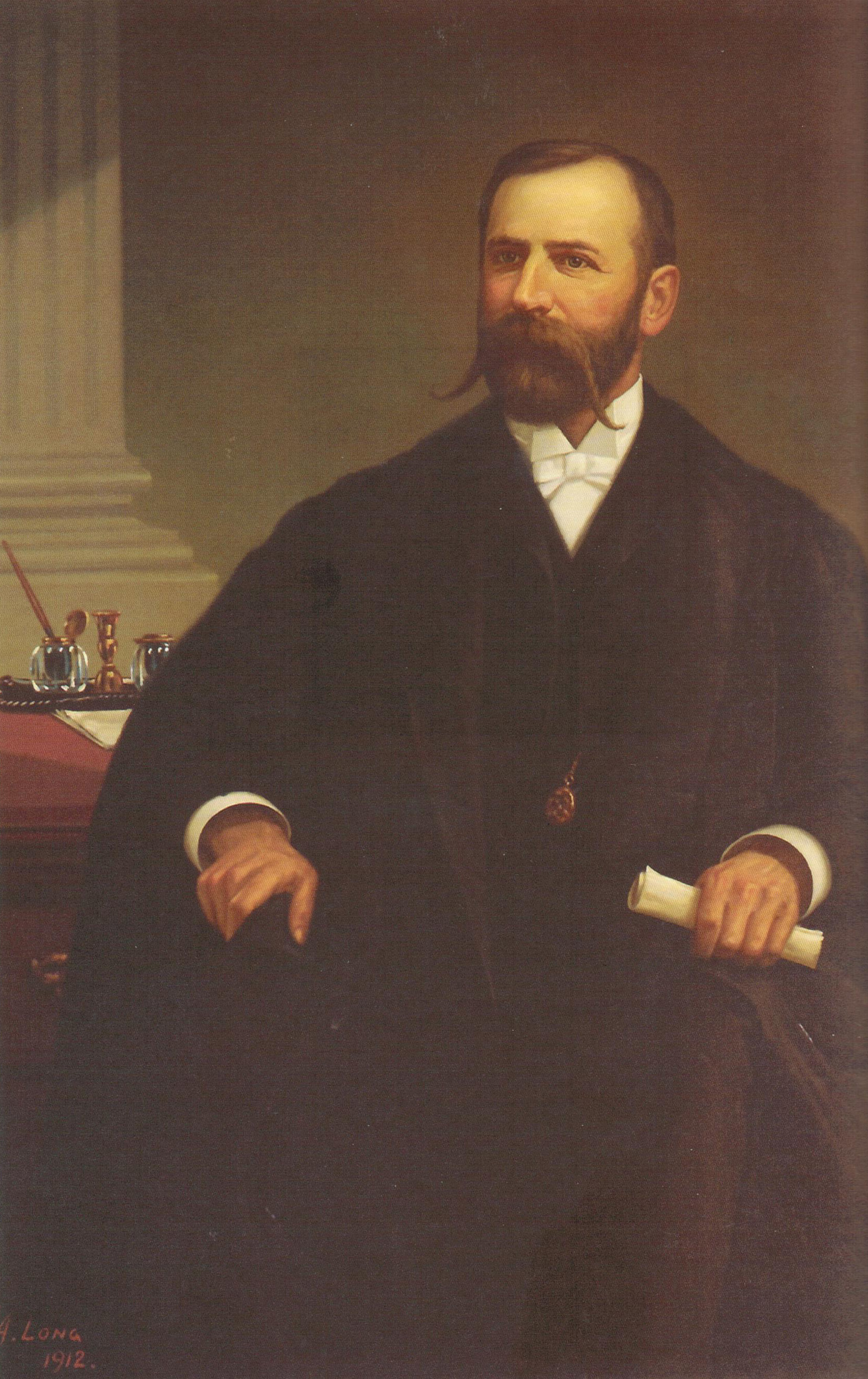 Herbert Charles Wilson, by Victor A. Long, 1912.